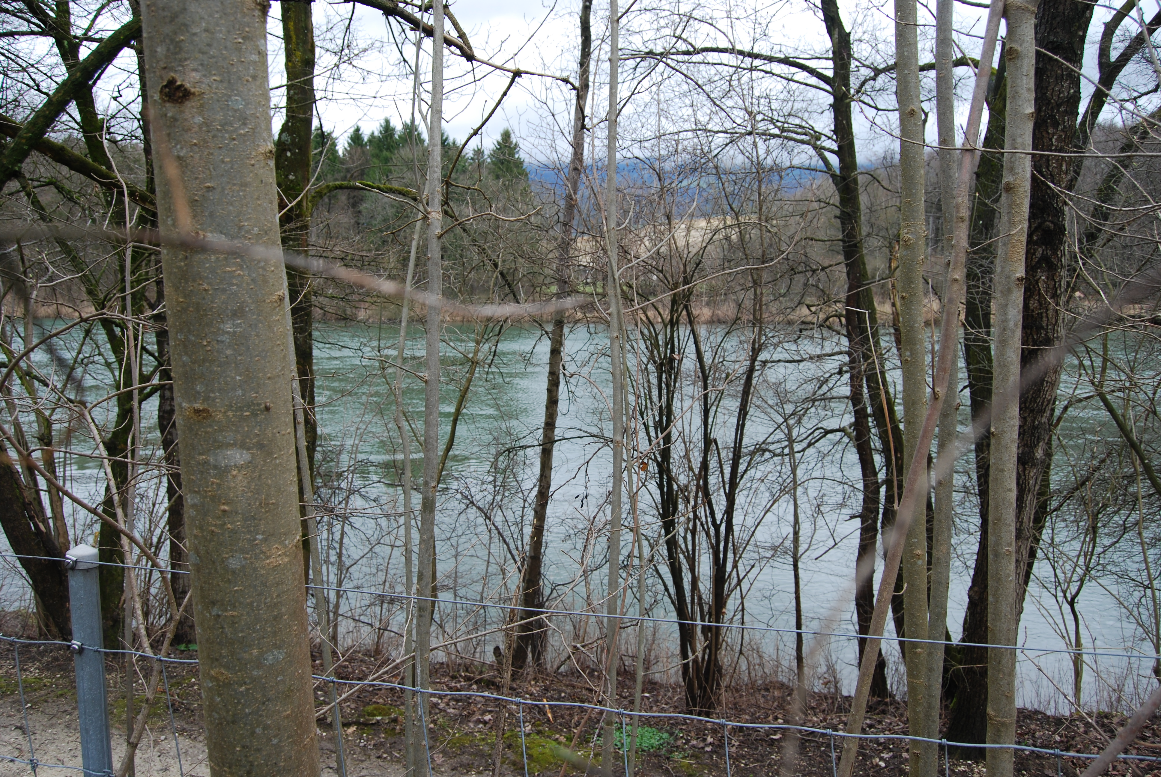 Aar seen from the highway service area Deitingen Nord, canton of Solothurn, SwitzerlandEsperanto: Aro vidita de la aŭtovojrestadejo Deitingen Nordo, Kantono Soloturno, Svislando